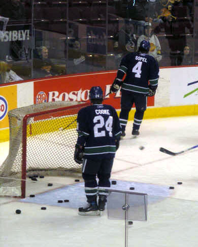 Vancouver Canucks forward Matt Cooke warming up in GM Place before playing the Los Angeles Kings on April 3, 2007.